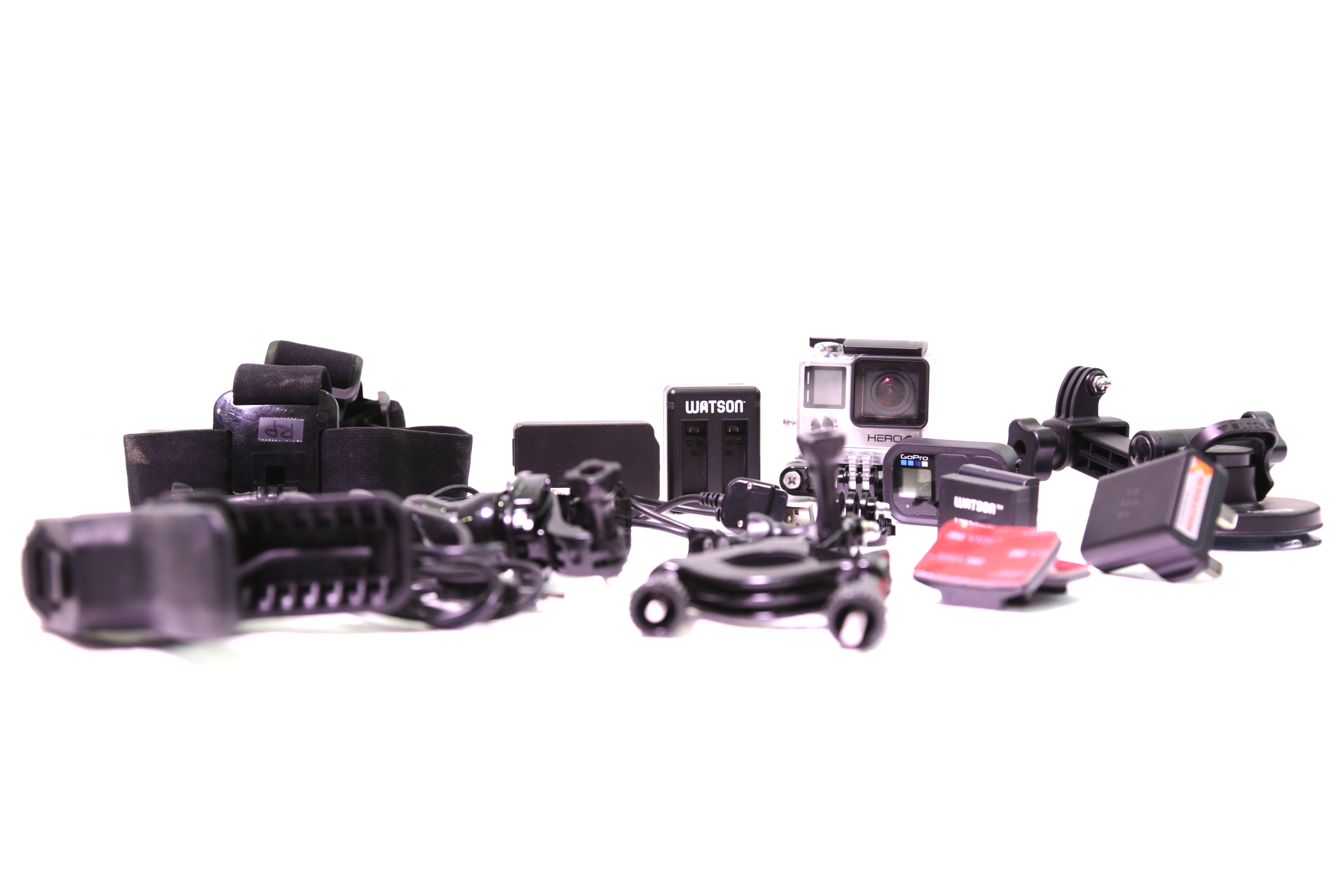 GoPro Hero 4 Black edition is a high performance small camera solution with HD quality of up to 4K and super slow motion of up to 240 frames per second.